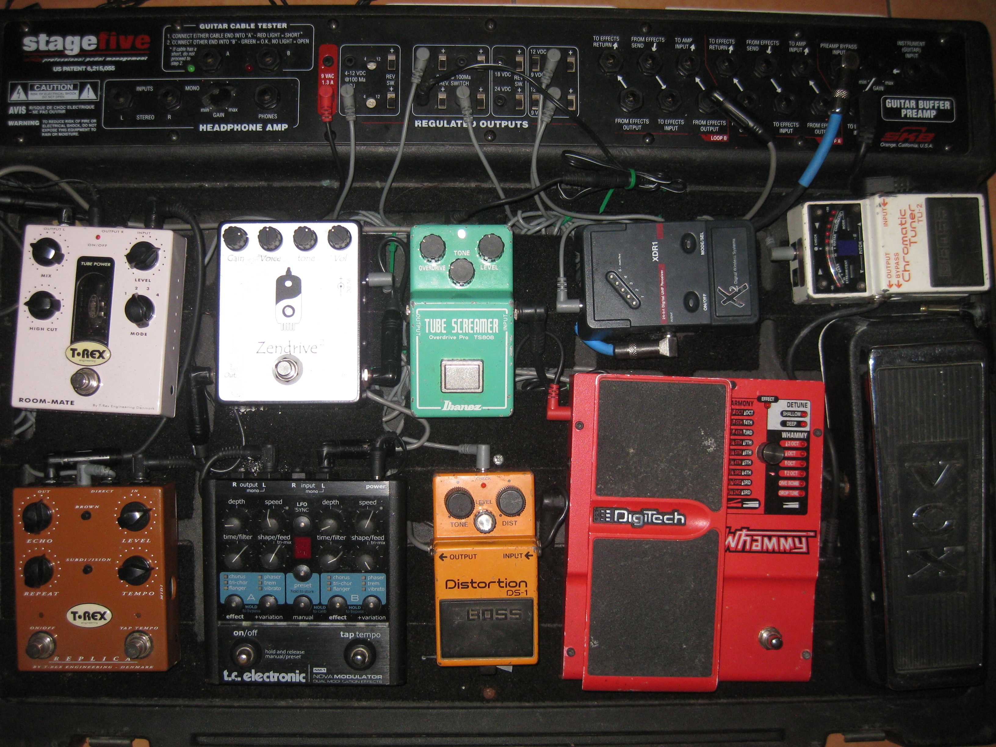 Ira Cruz guitar effects